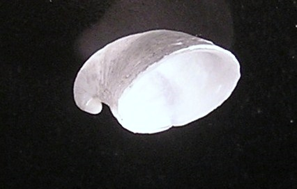 Capulus japonicus A. Adams, 1861, a cap snail from the family Capulidae; Philippines